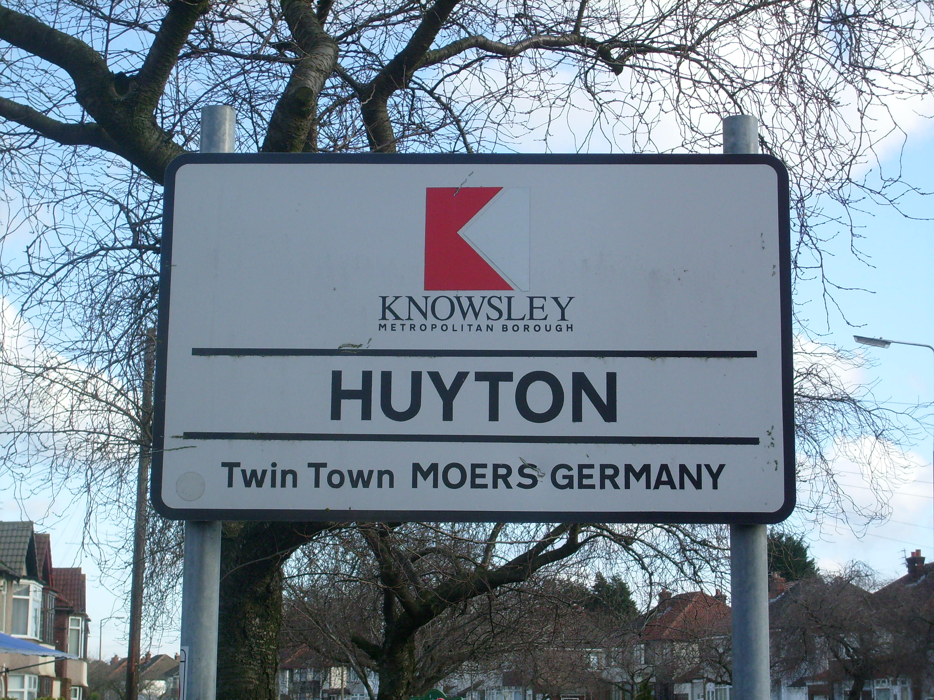 Part of the North Liverpool Extension Line Huyton Sign